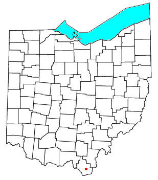 Locator map of the unincorporated community of Willow Wood in Lawrence County, Ohio, United States.